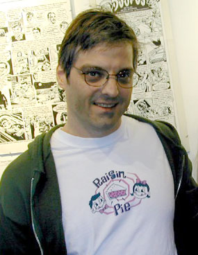 Photo of cartoonist Rick Altergott